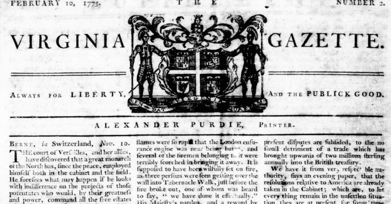 Virginia Gazette issues printed by Alexander Purdie